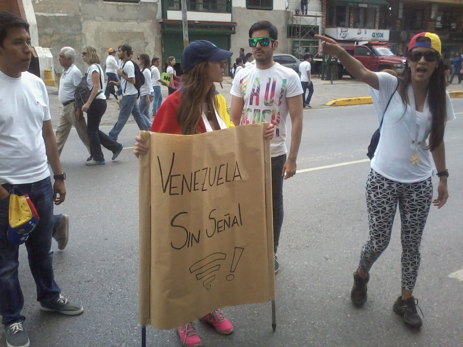 Opposition protestors with a sign saying "Venezuela without signal!". During the February 18, several protestors reportad that they didn't have Internet and cellphone signal.